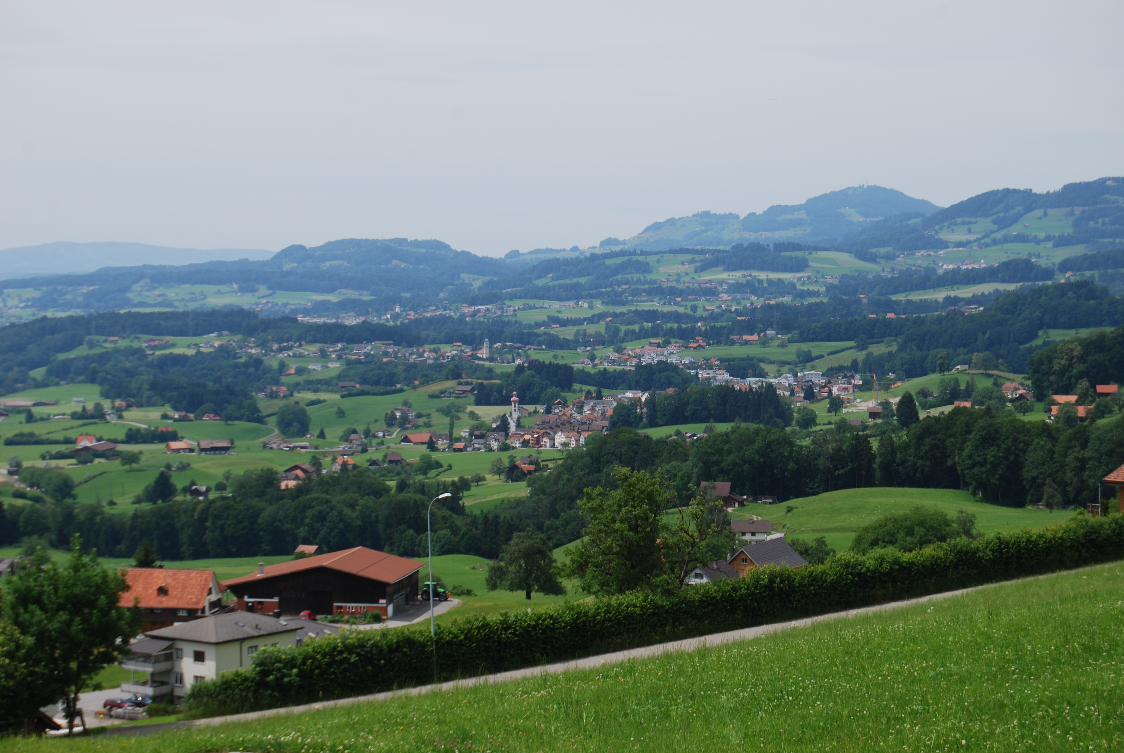 View from Rieden to Gommiswald and Ernetschwil, canton of St. Gallen, SwitzerlandEsperanto: Rigardo de Rieden al Gommiswald kaj Ernetschwil, Kantono Sankt-Galo, Svislando